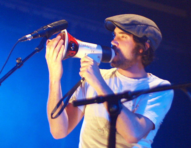 Canadian musician Patrick Watson using a megaphone to warp and loop his voice during a performance in Amsterdam in 2009.